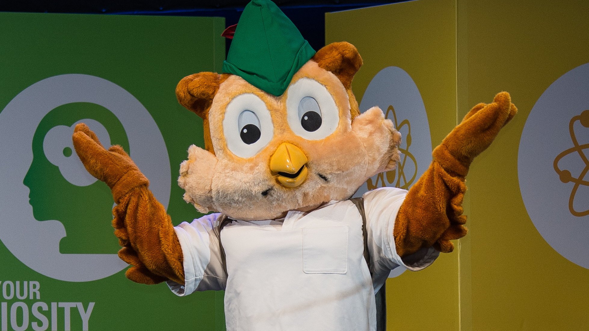 Woodsy Owl 2016